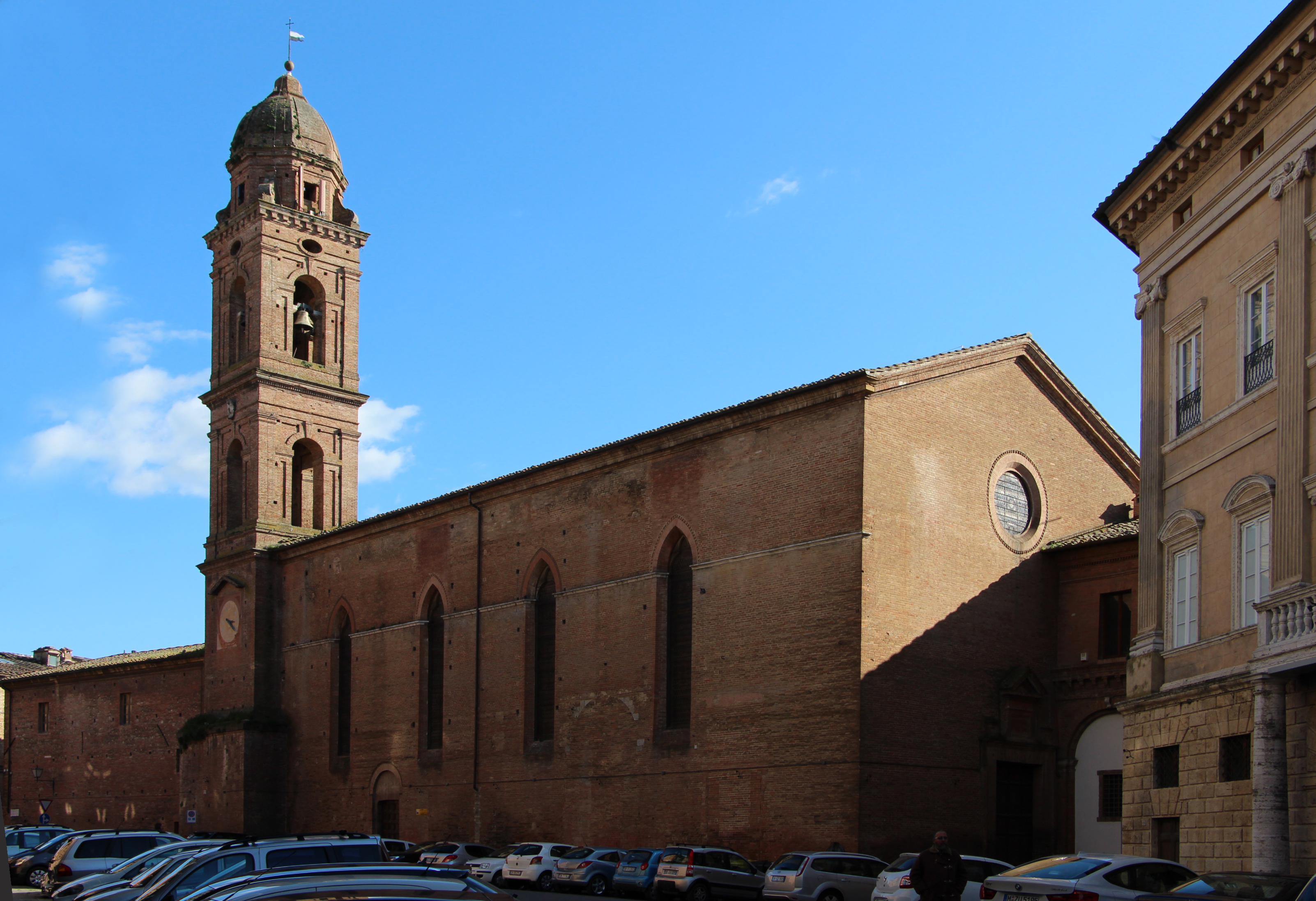 San Niccolò del Carmine (Siena)